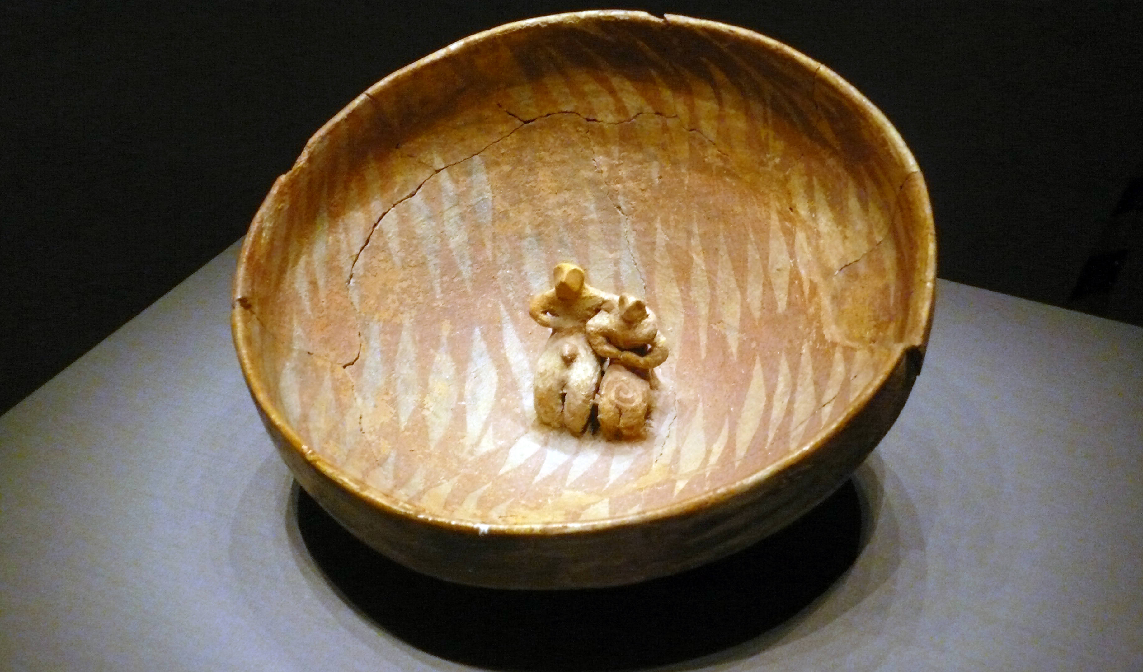 The Vessel with "the two lovers". Eneolithic, the Gumelnița Culture, 4500-4100 BCE. Found in Mânăstirea, Călărași, Romania. Collected by the“Teohari Antonescu” Giurgiu County Museum (Muzeul Județean „Teohari Antonescu”).